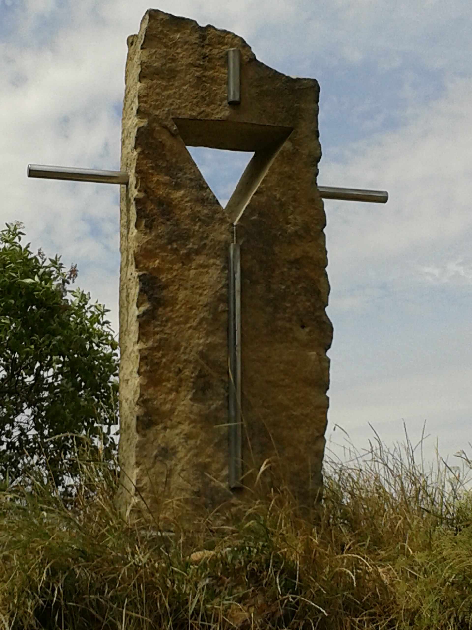 Calvary in Lysolaje - holy rood. The author - sculptor Stepan Rattay, wayside solemnly blessed by Archbishop Duka on Sunday 3rd April 2011.